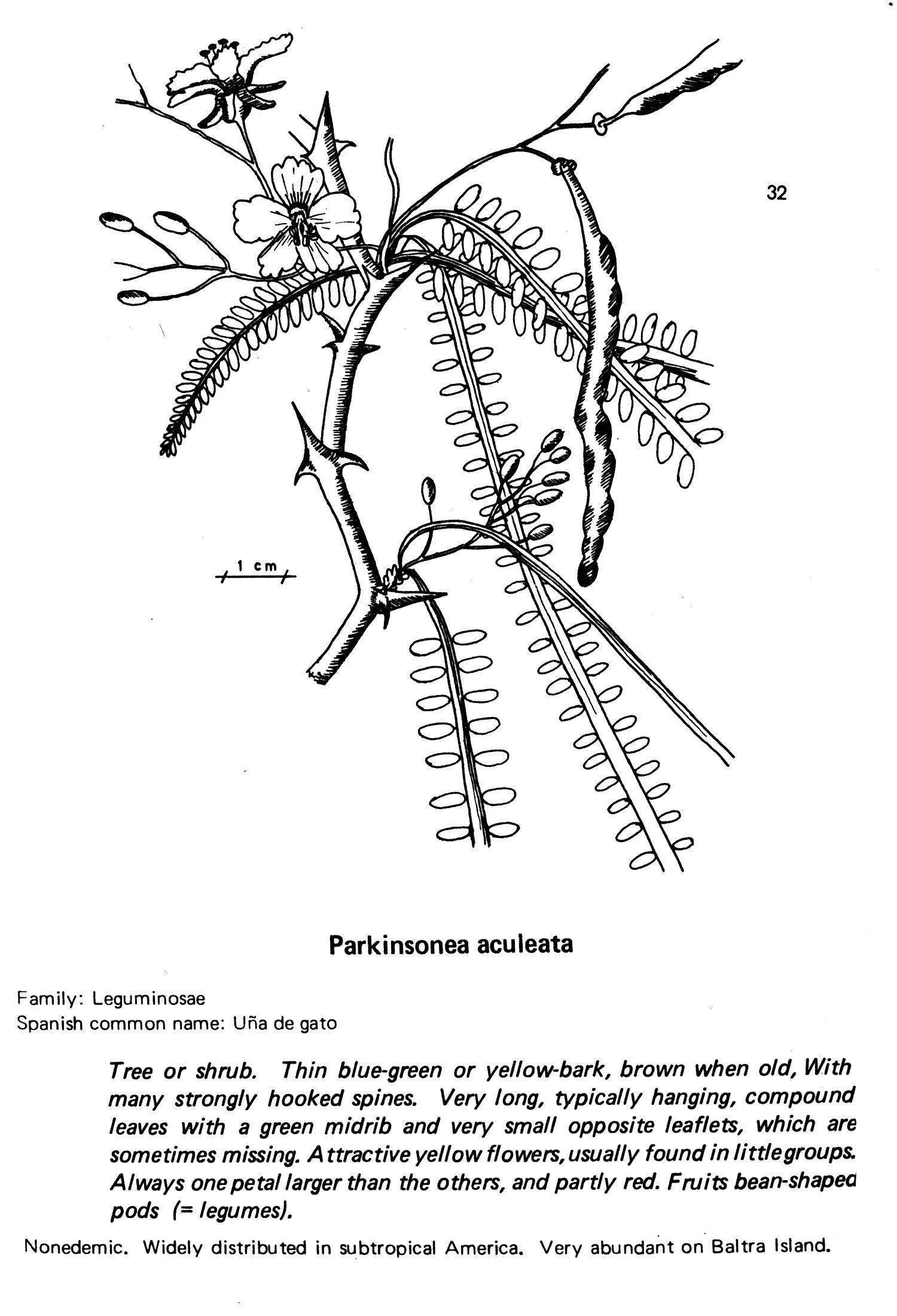 Drawings an descriptions of plants common on Galapagos. Complete scan of the book "Galapagos plants" by Klaus Schönitzer (Contribution No. 172 of the Charles Darwin Foundation; printed in Quito, Ecuador; 50 pages) Scanned by Michael F. Schönitzer.